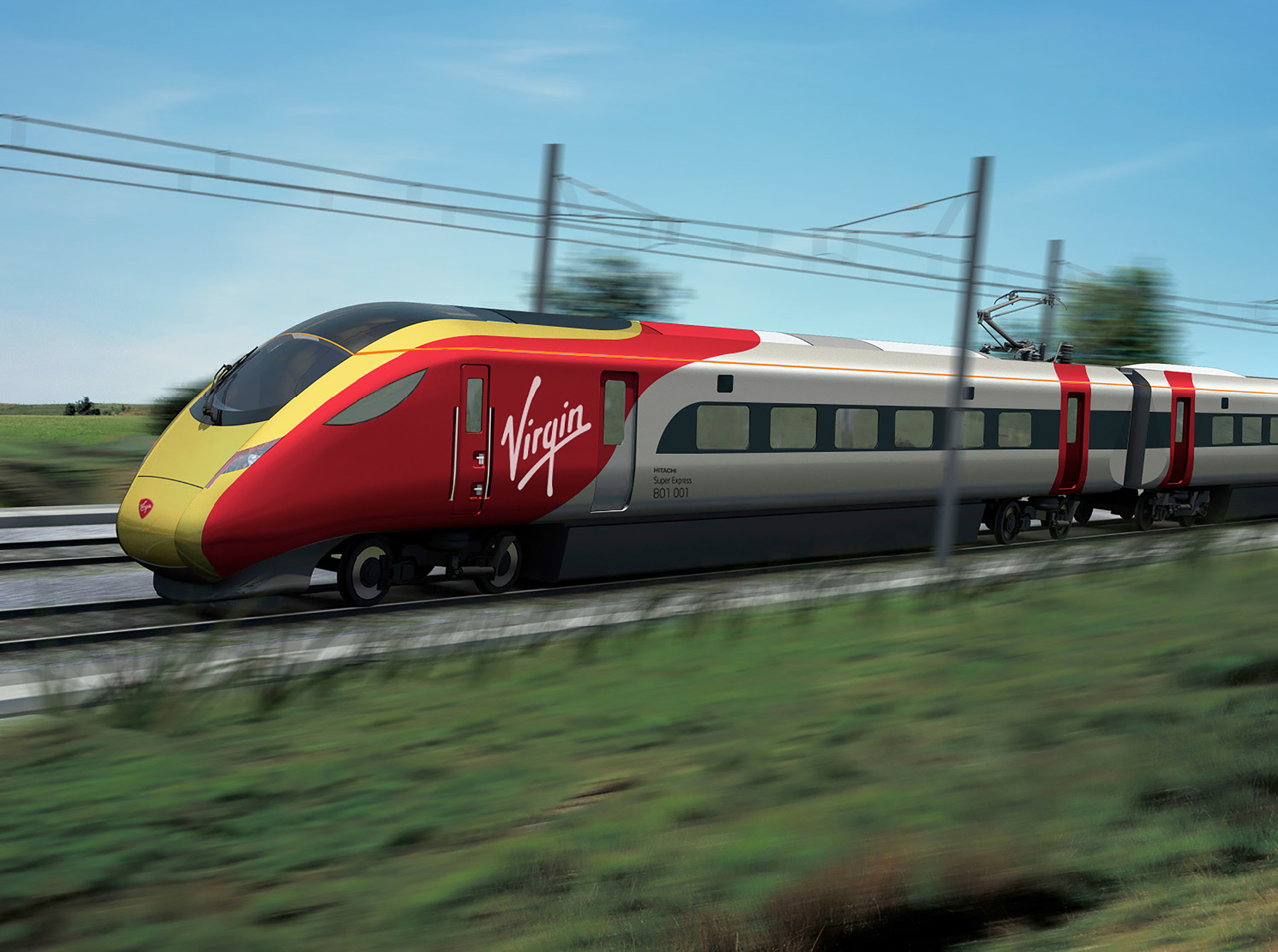 New IEP trains for InterCity East Coast franchise operated by Stagecoach and Virgin